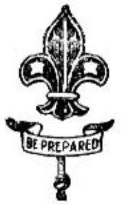 The insignia of a First Class Scout, UK and the British Empire, 1919.